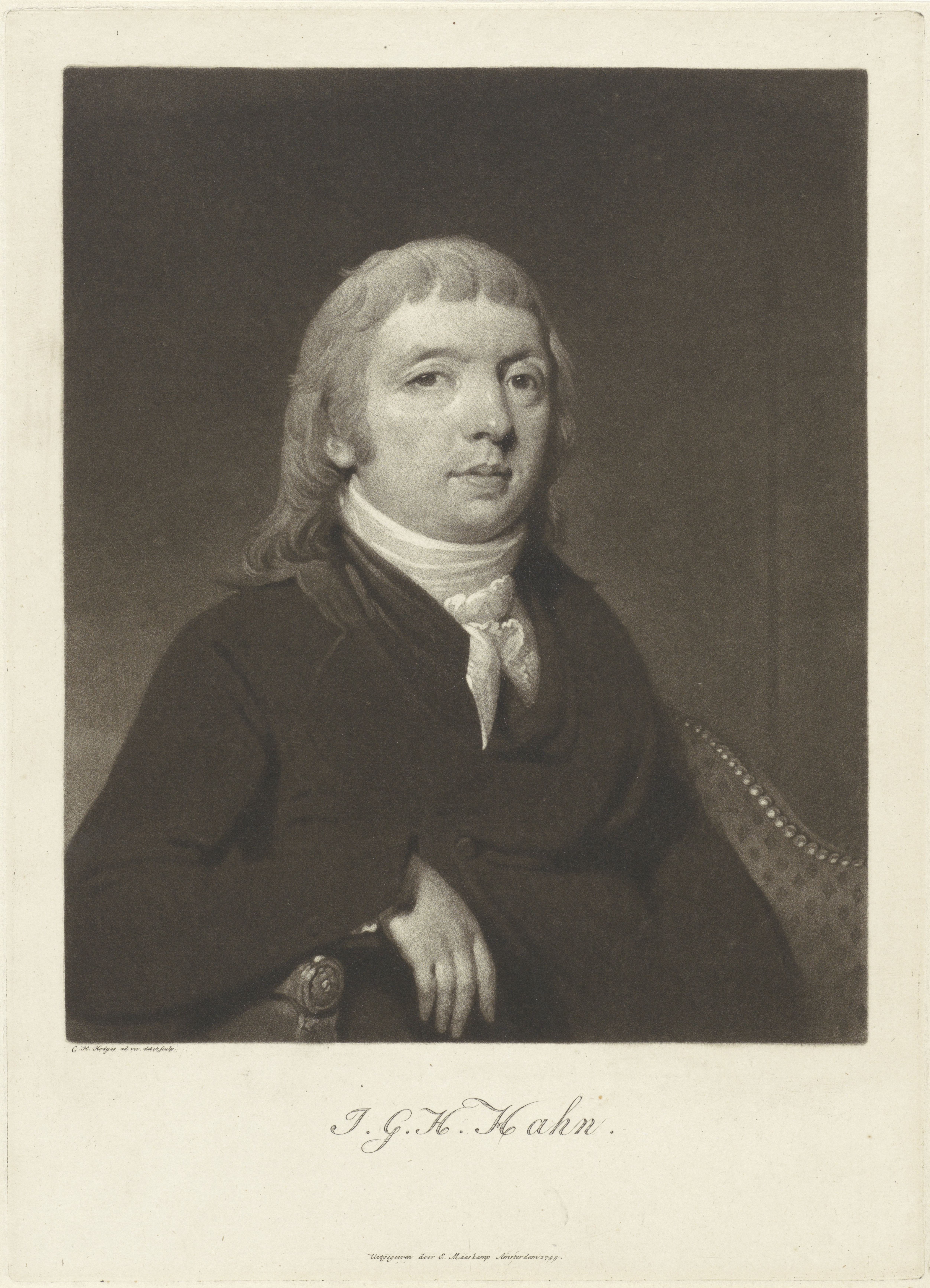 Dutch politician Jacob George Jeronimo Hahn (1761-1822)